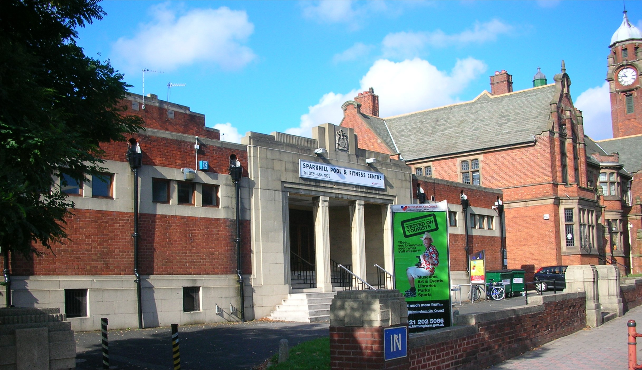 The public baths at Sparkhill, Birmingham, England. To the right is the library. Photographed by me 26 September 2006. Oosoom